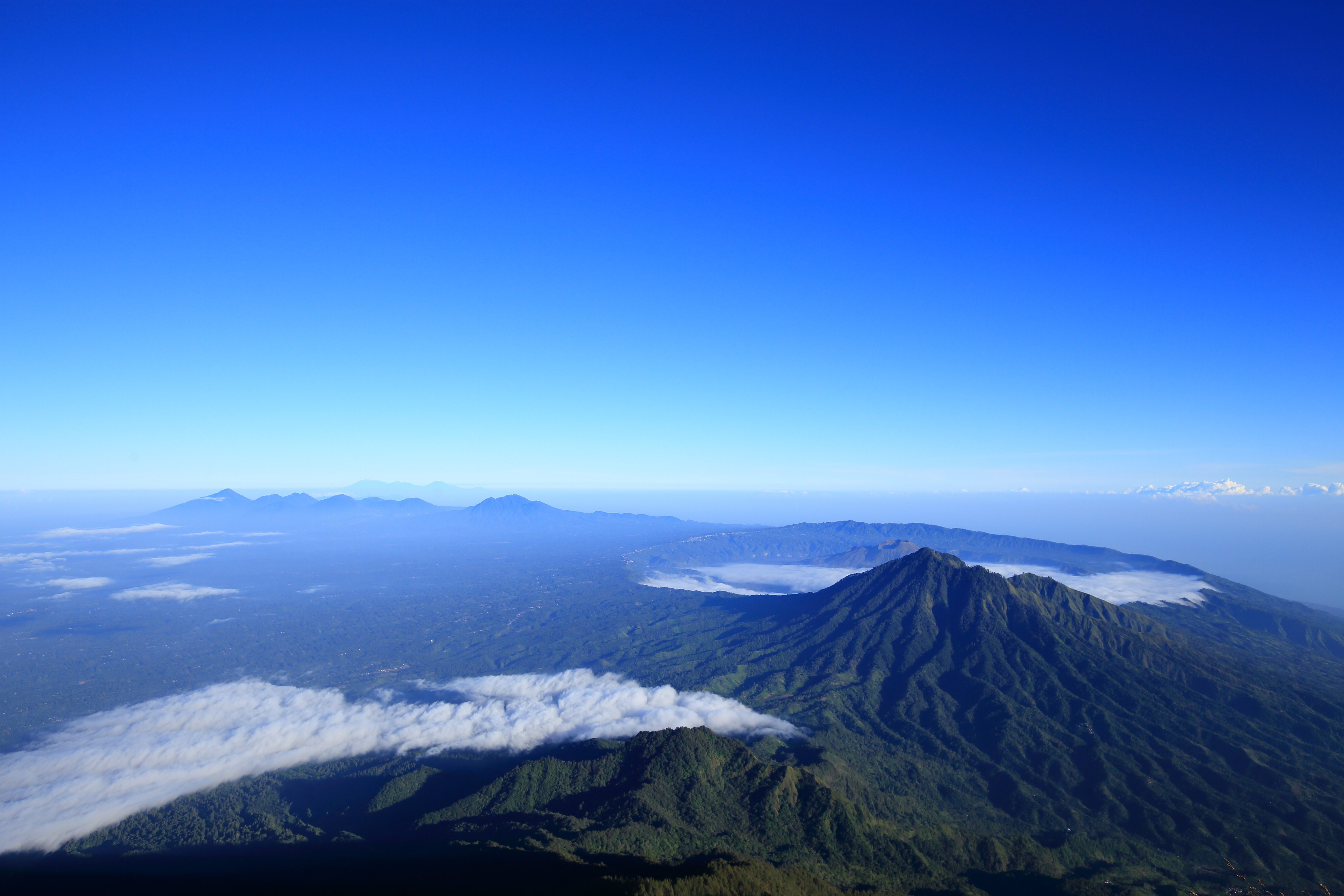 Wide view from Mount Agung in Bali, Indonesia. Mount Abang and Batur caldera in the right.